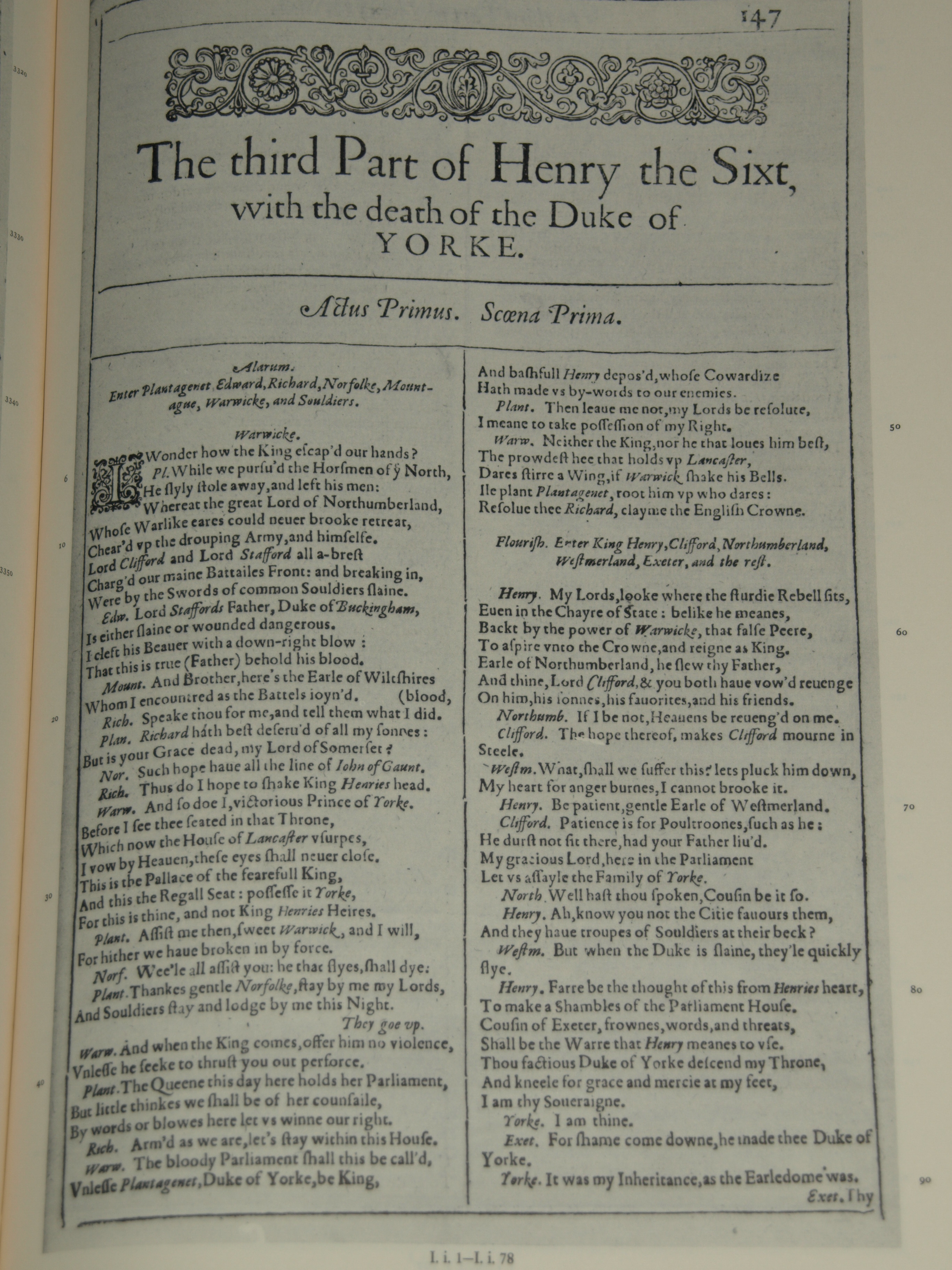 Photo of the first page of King Henry the Sixth, Part Three from a facsimile edition of the First Folio of Shakespeare's plays, published in 1623